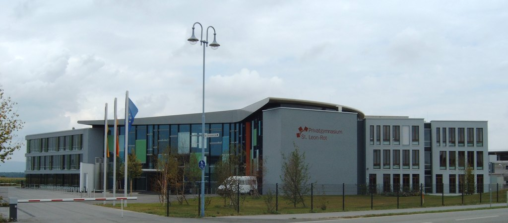 School in St. Leon-Rot